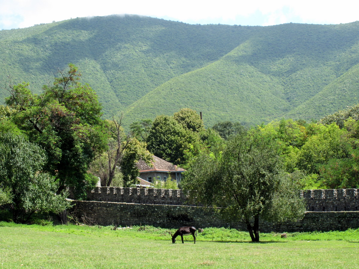 photos from azerbaijan, as part of trip documented on in sheki